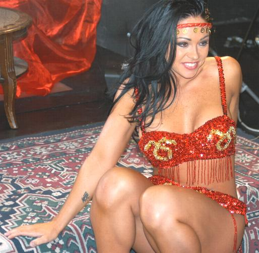 Cherokee on Set of movie `I Dream Of Chasey`, Nov 23, 2004